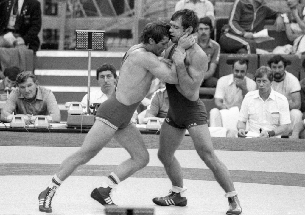 “Greco-Roman wrestlers Ferenc Kocsis and Anatoly Bykov”. Greco-Roman wrestlers Ferenc Kocsis of Hungary, left, and Soviet Anatoly Bykov during the finals at the 22nd Olympics in Moscow, 1980.